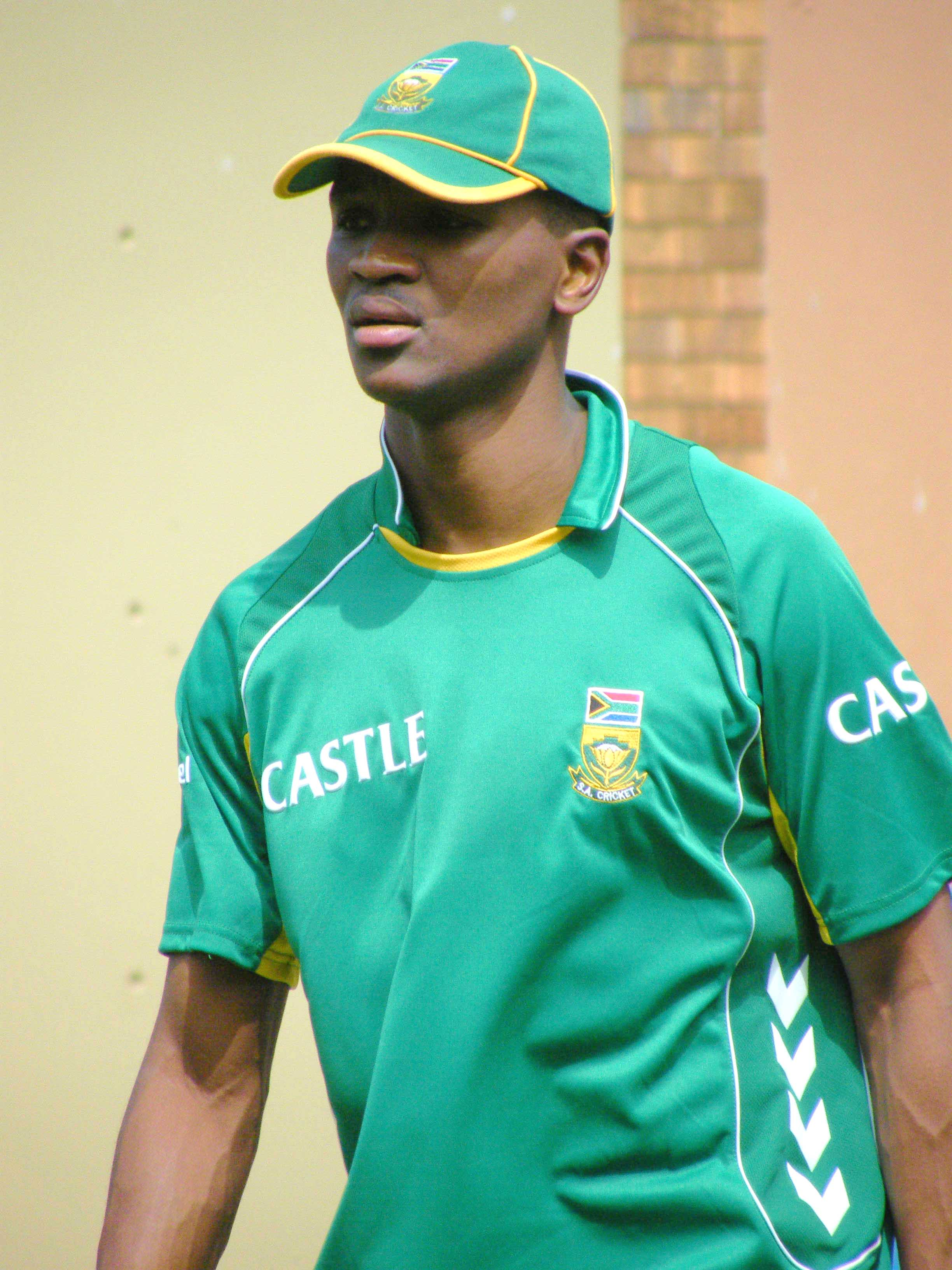 Monde Zondecki - South African Cricket Training - 01 January 2009 Sydney Cricket Ground.